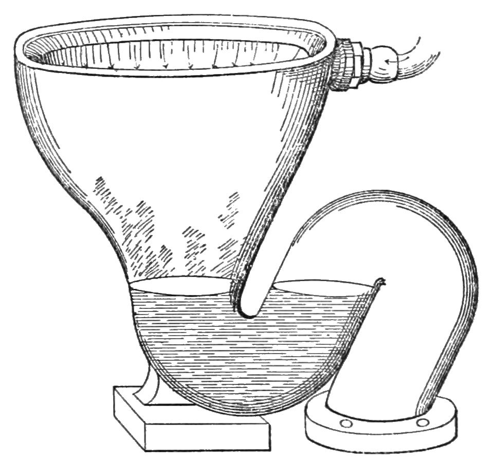 Short hopper water closet